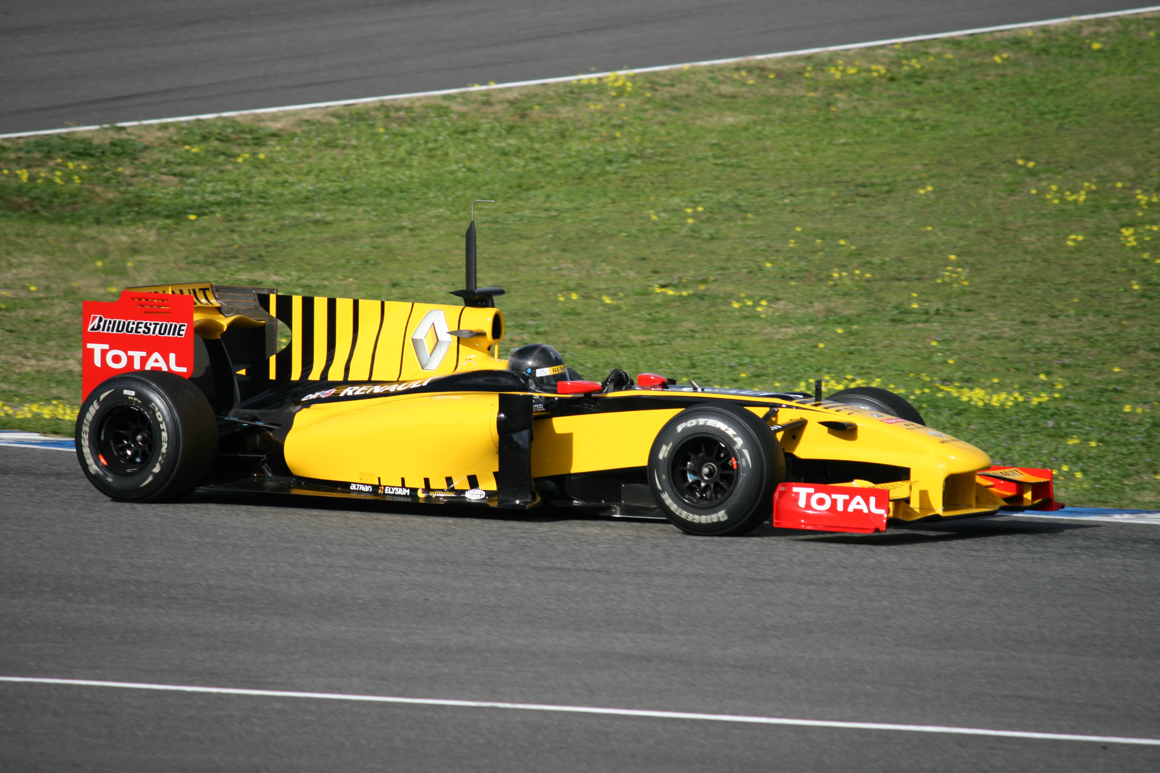 Robert Kubica, Renault R30, pre-season testing in Jerez 2010